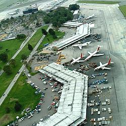 Domestic Cargo Terminals at El Dorado International Airport.